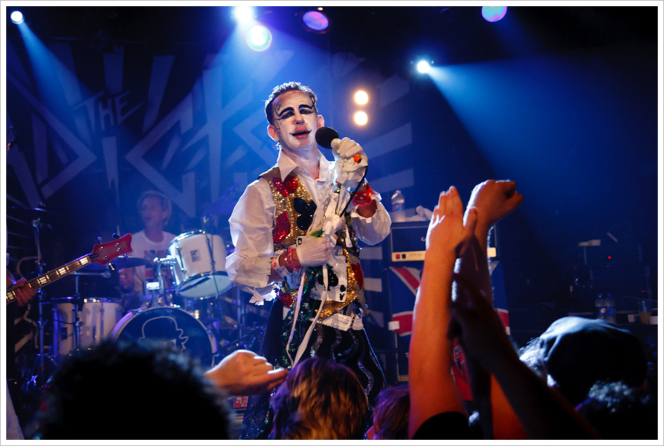 The Adicts in SO36